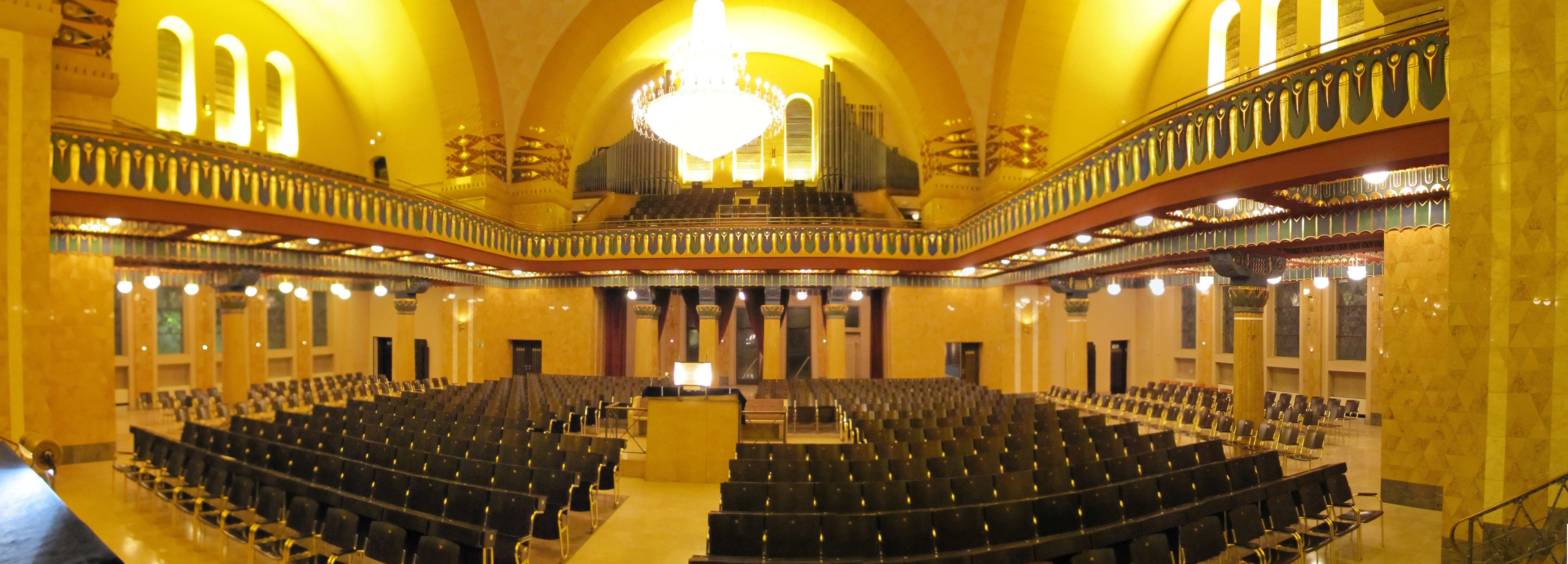 "Westend-Synagoge" in Frankfurt am Main, Germany.